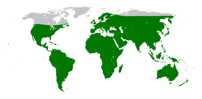 Pholcidae habitat distribution, drawn after Platnick: World Spider Catalog 7.0. This is not a precise rendering of the distribution! If you have better information, please replace this map, or send me the info, and i will redraw it.